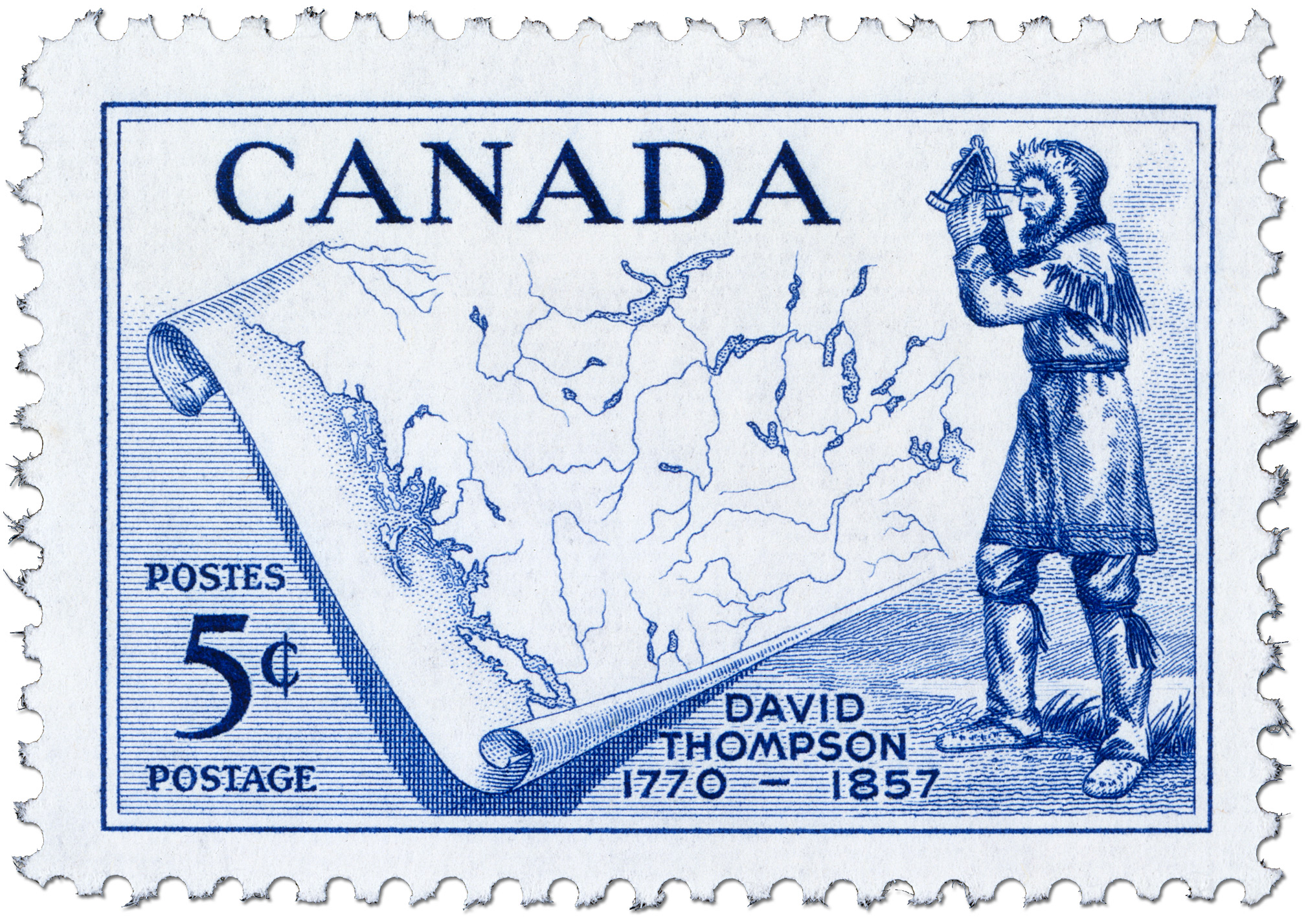 Postage stamp commemorating David Thompson (1770-1857), issued 5 June 1957 by Canada Post